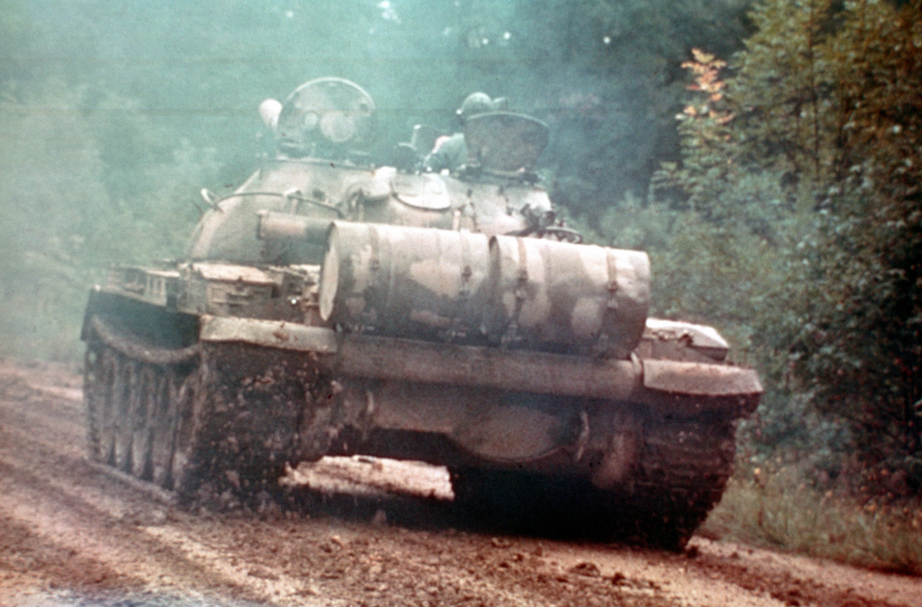 A left rear view of a Soviet-built T-62A main battle tank underway. Mounted at the rear of the hull are two drum fuel tanks and an unditching beam.